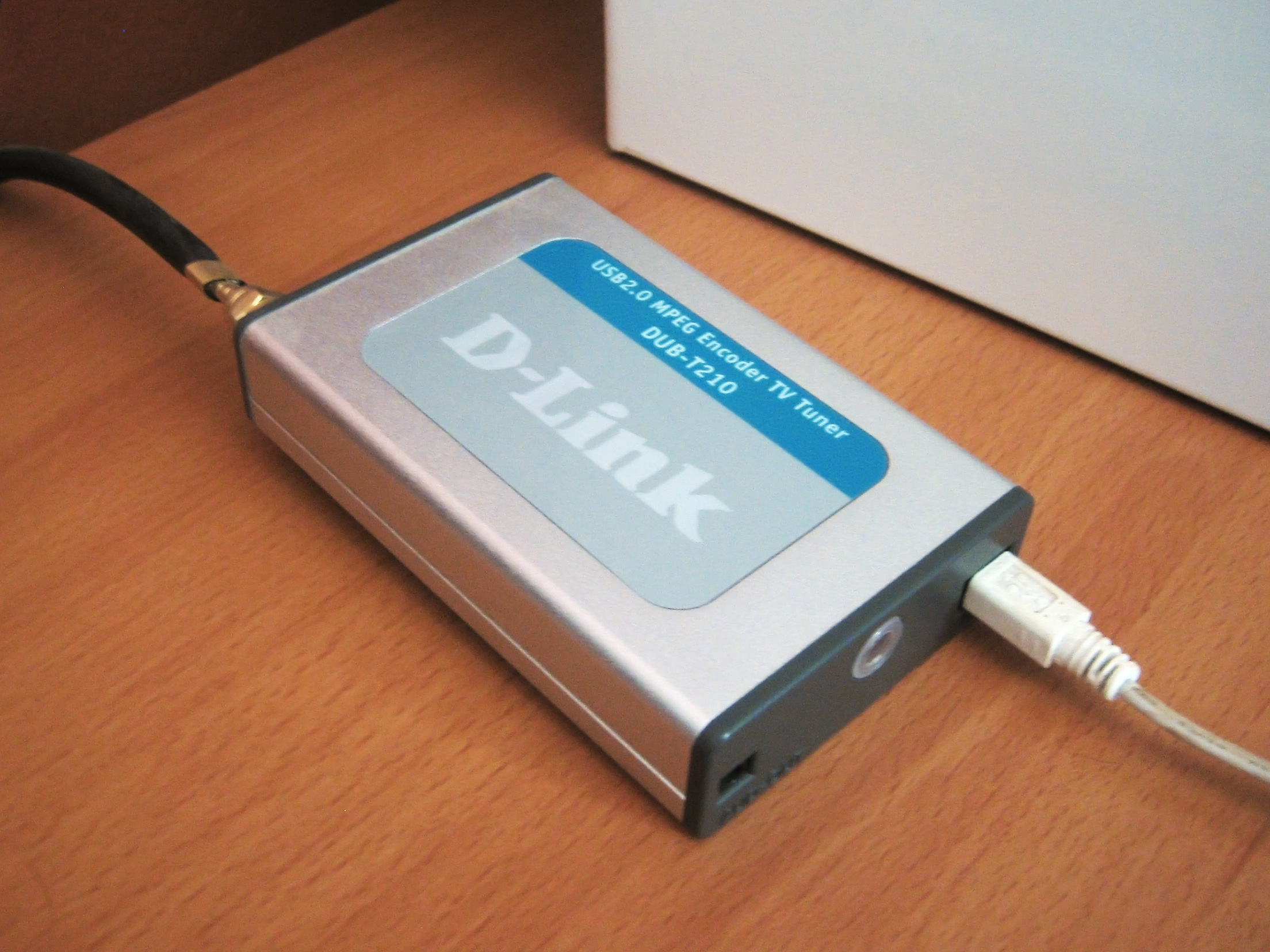 External TV Tuner manufactured by D-Link (DUB-T210)